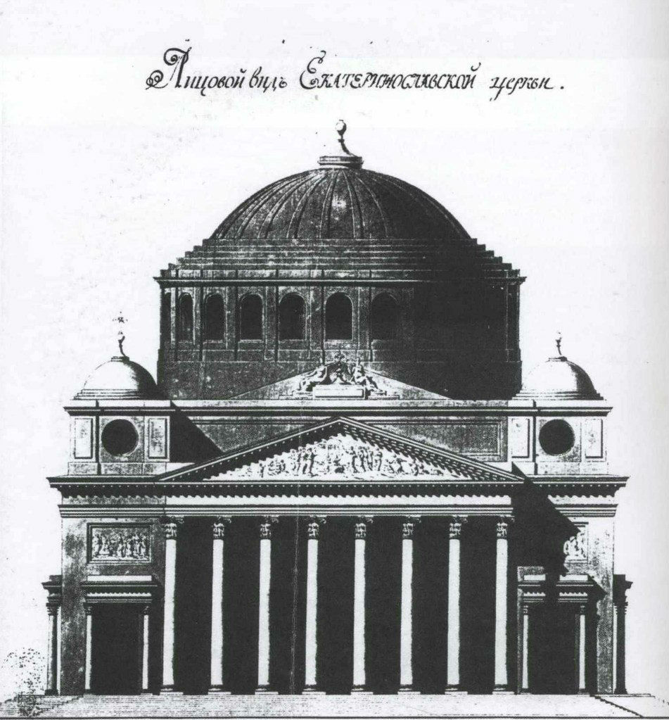 Екатеринославъ. Храмы/ Начала 20 века.